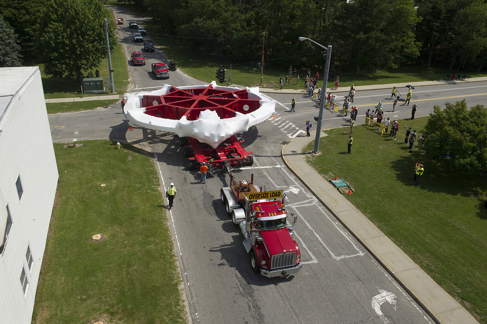 The Muon g-2 (pronounced gee minus two) is an experiment that will use the Fermilab accelerator complex to create an intense beam of muons -- a type of subatomic particle -- traveling at the speed of light. The experiment is picking up after a previous muon experiment at Brookhaven National Laboratory, which concluded in 2001. In this photo, the massive electromagnet is beginning its 3,200-mile journey from the woods of Long Island to the plains near Chicago, where scientists at Fermilab will refill its storage ring with muons created at Fermilab’s Antiproton Source. The 50-foot-diameter ring is made of steel, aluminum and superconducting wire. It will travel down the East Coast, around the tip of Florida, and up the Mississippi River to Fermilab in Illinois. Transporting the 600-ton magnet requires meticulous precision -- just a tilt or a twist of a few degrees could leave the internal wiring irreparably damaged. Photo courtesy of Brookhaven National Laboratory.